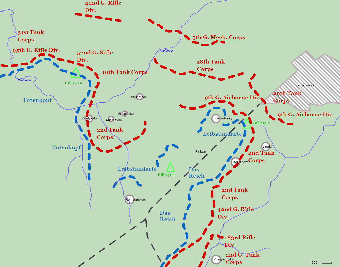 Drawn approximately to scale. Soviet and German units around Prokhorovka on the night of 11 July. All units are presented at only their divisional-level, except for Soviet tank corps. Works consulted: Glantz, David M.; House, Jonathan M. (2004) [1999]. The Battle of Kursk. Lawrence, KS, USA: University Press of Kansas. ISBN 978-0-7006-1335-9. Pages: 165, 183–184. Clark, Lloyd (2012). Kursk: The Greatest Battle: Eastern Front 1943. London, UK: Headline Publishing Group. ISBN 978-0-7553-3639-5. Page: 322.